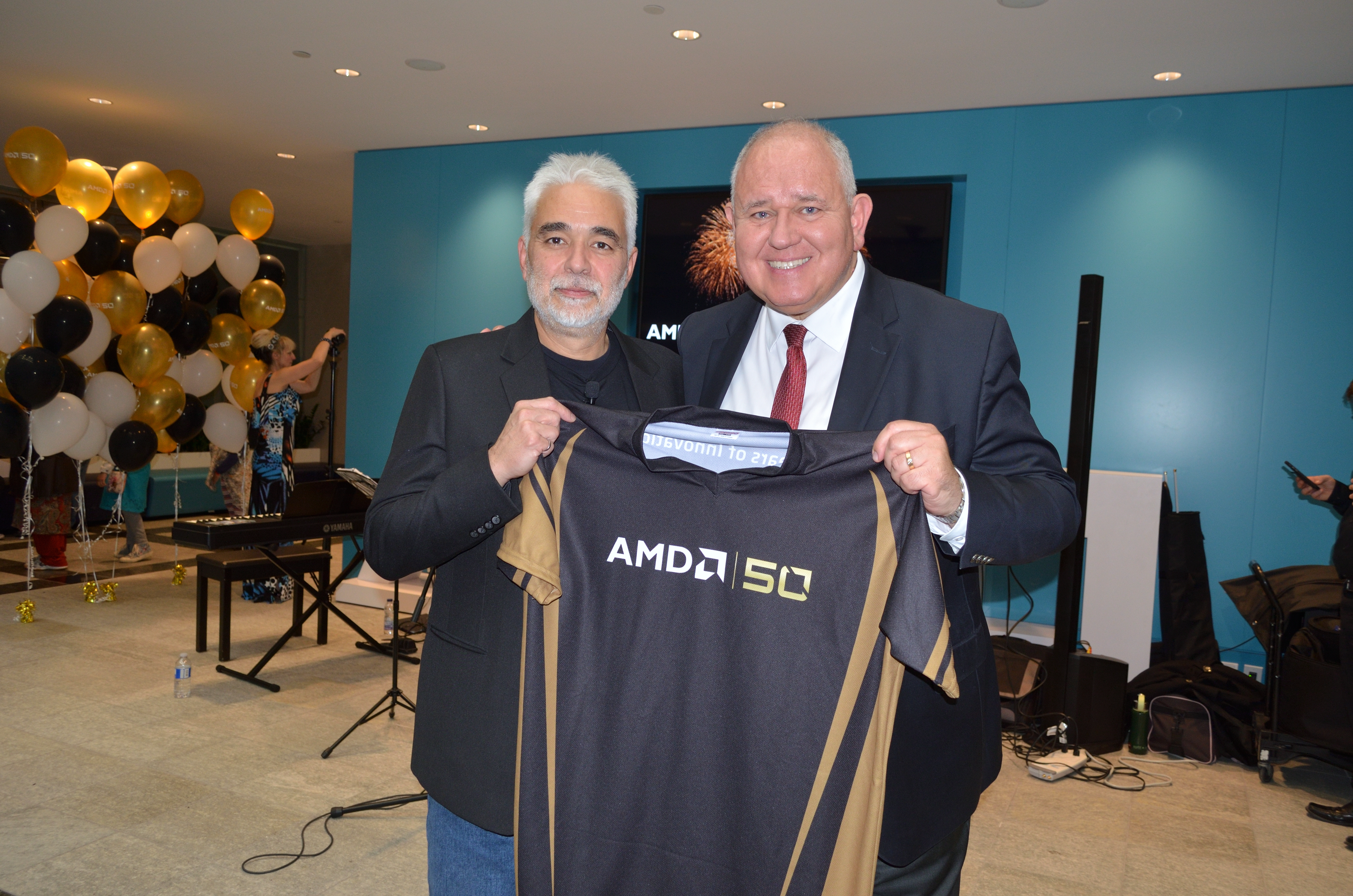 Markham mayor Frank Scarpitti (right) attending AMD 50th Anniversary at AMD Markham office; with Andrej Zdravkovic AMD Corp. VP, Software and AMD Markham Site Lead (left)